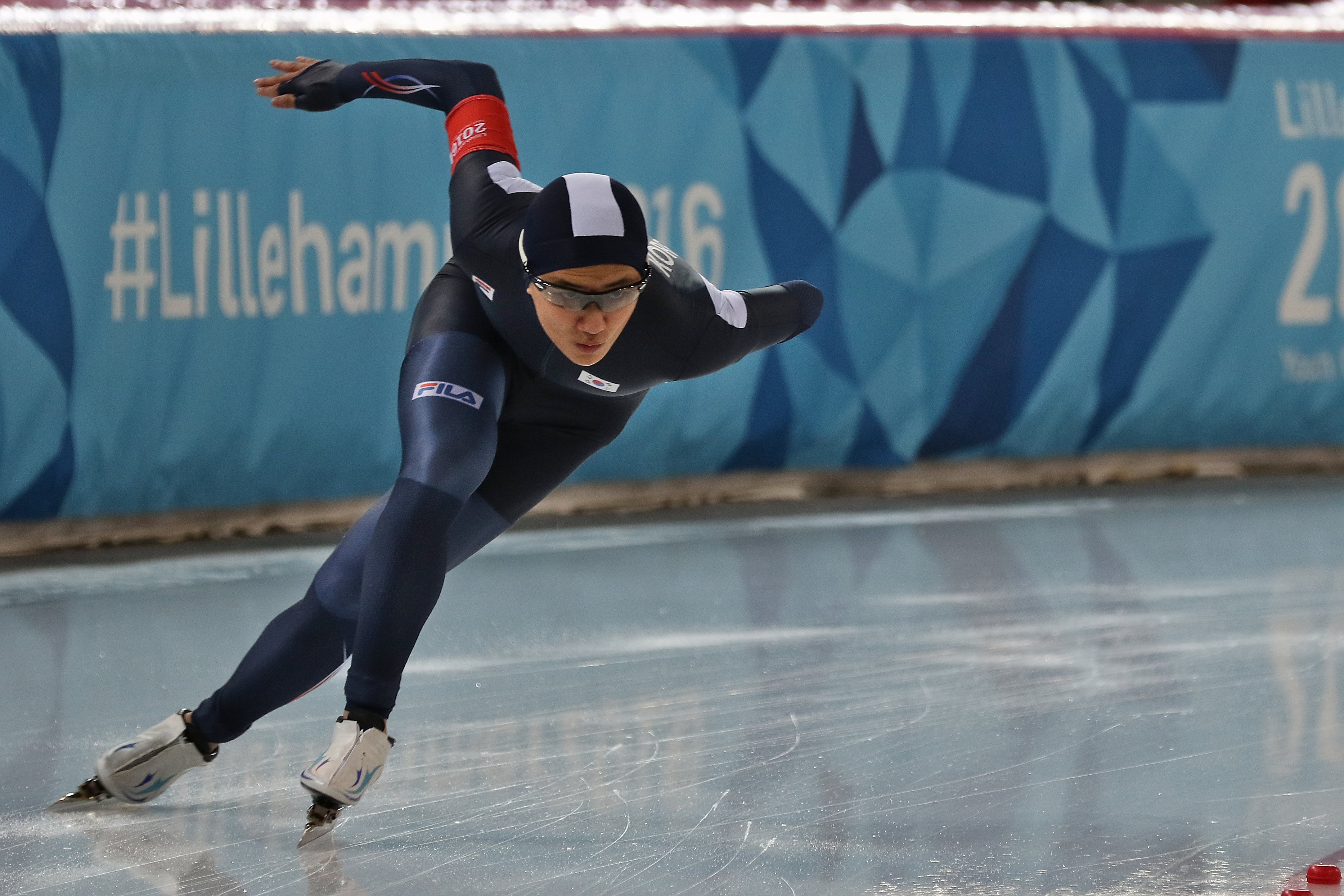 Lillehammer 2016 - Speed skating Men's 500m race 1 - Jae Woong Chung